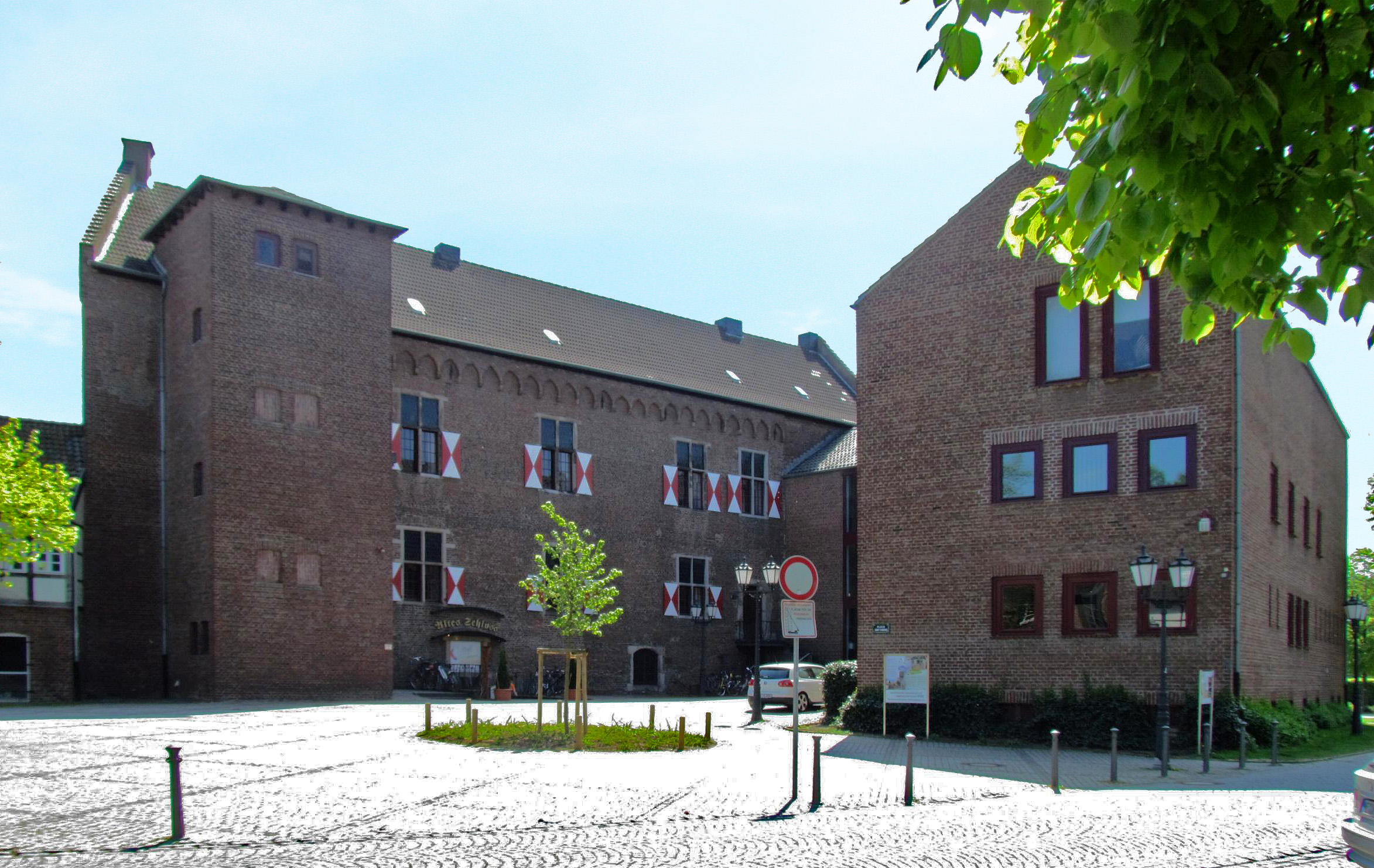 This is a photograph of an architectural monument.